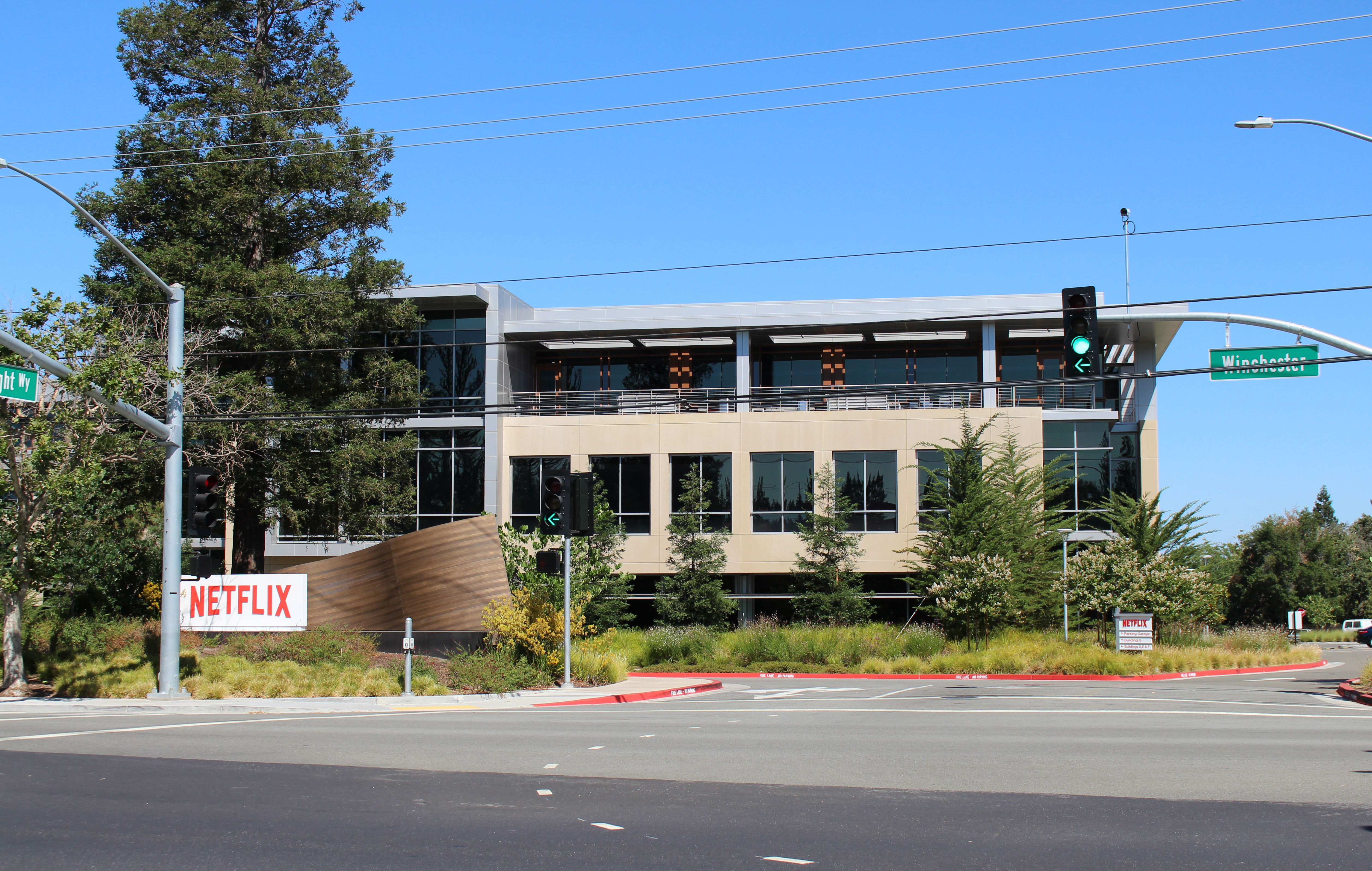 This office building at 101 Albright Way in Los Gatos, California is one of four buildings at Netflix's headquarters expansion campus south of California State Route 17. The campus opened in 2016. Photographed by user Coolcaesar on 14 July 2018.